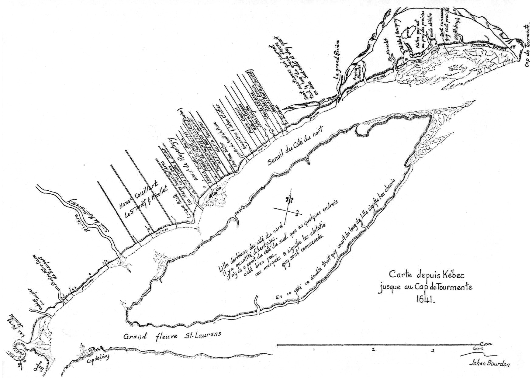 Map of Beaupré and Orléans Island, at east of Quebec City, made by Jean Bourdon in 1641.